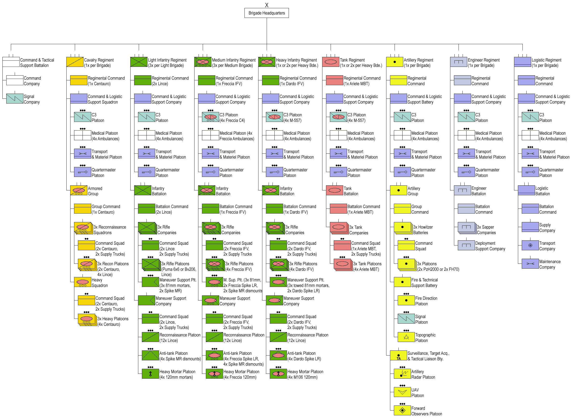 Organization of Italian Army brigades down to company and platoon level